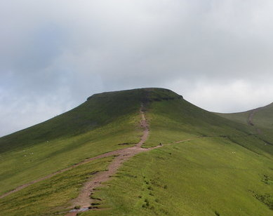 Corn Du.